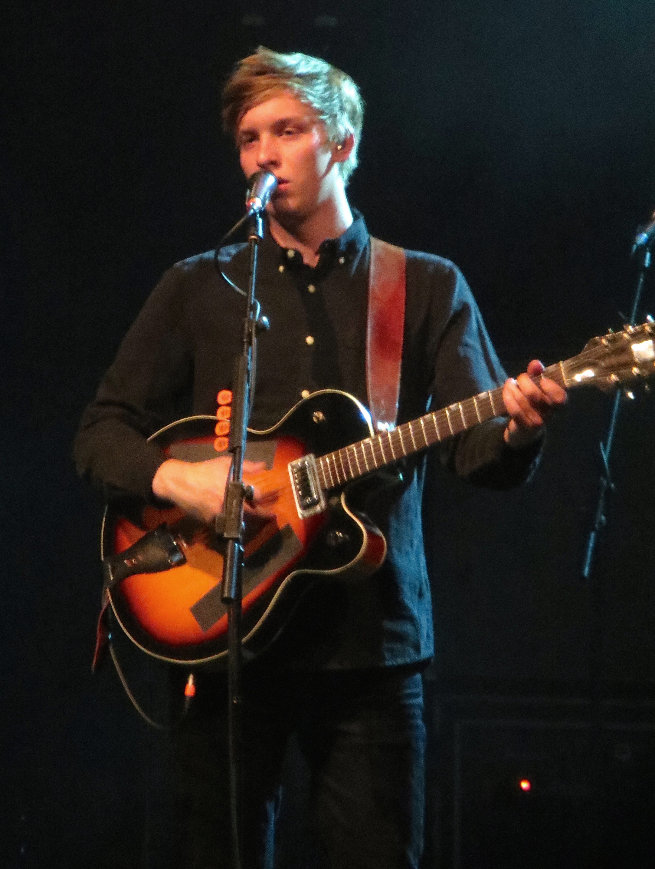 George Ezra performing at the O2 Academy Glasgow , UK on June 4, 2015.